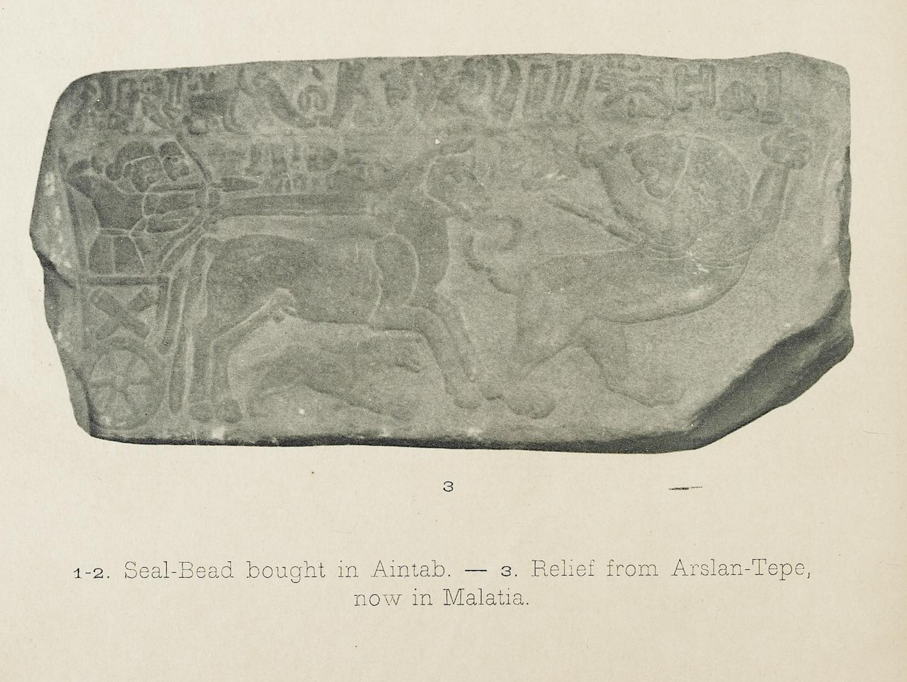 First published relief known from Arslantepe depicting a lions hunt in a chariot